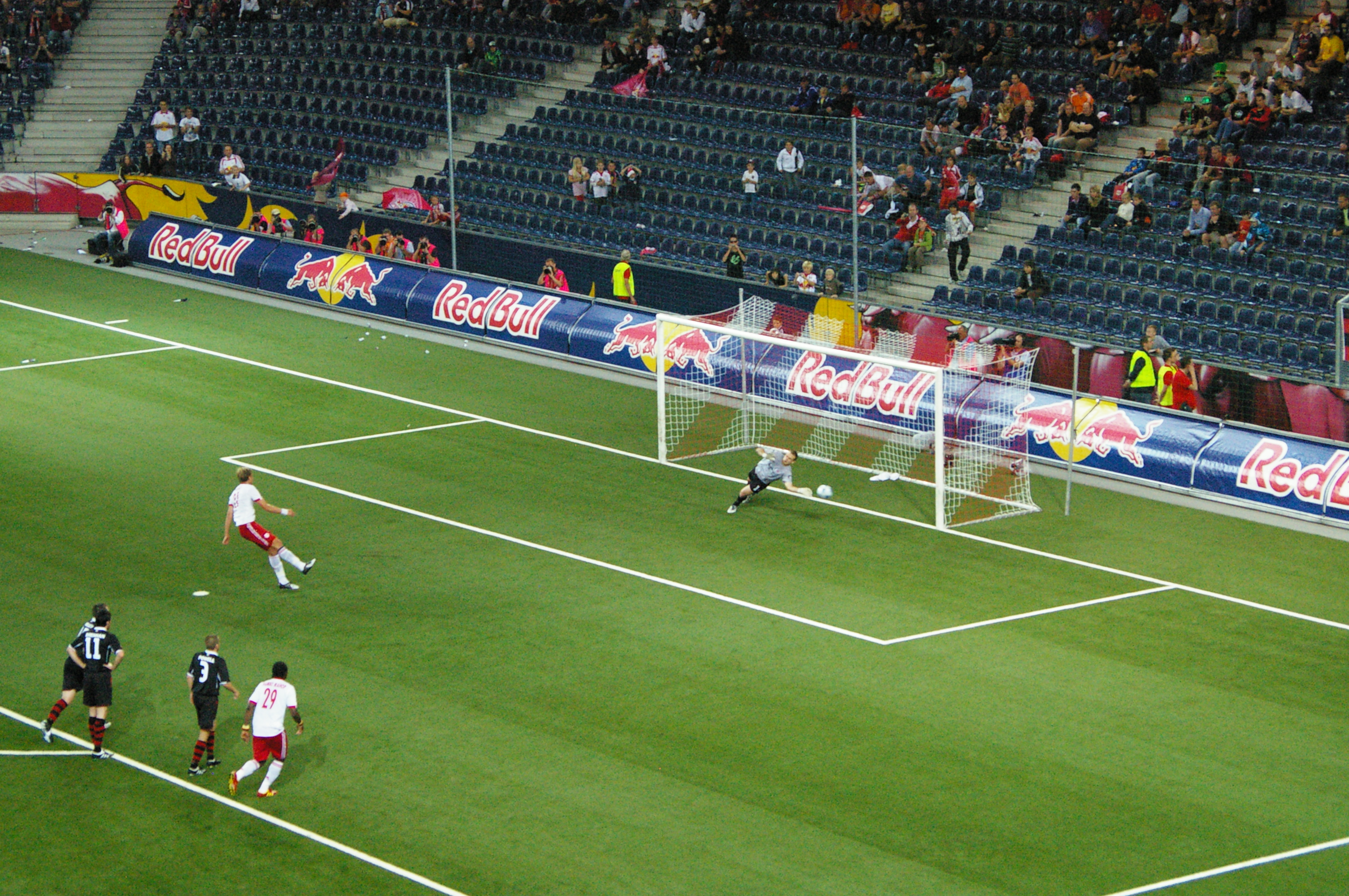 Penalty shot vs.Bohemians Dublin